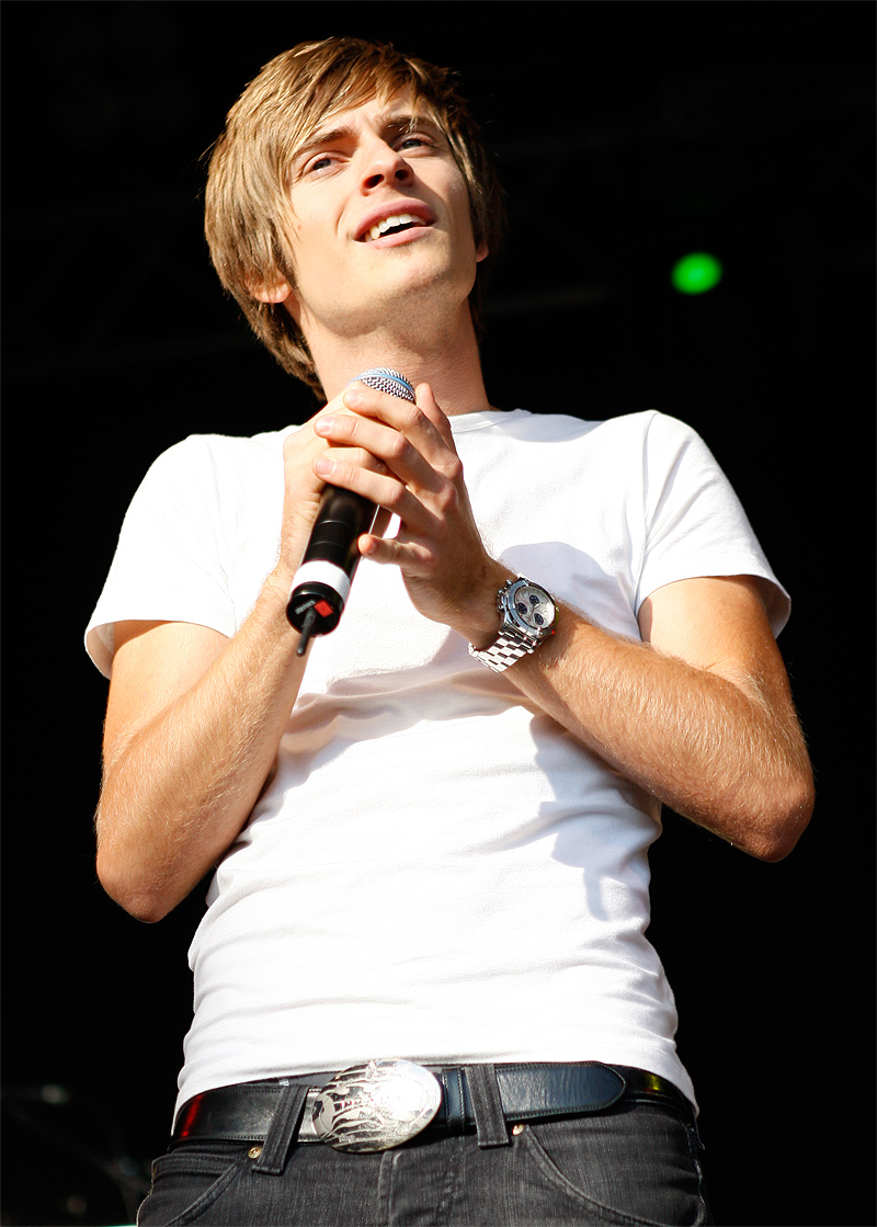 Jörn Schlönvoigt at an appearance in Hamm, Germany, on 4 July 2008